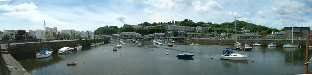 Panorama of Porthmadog Harbour Panorama made up of six images